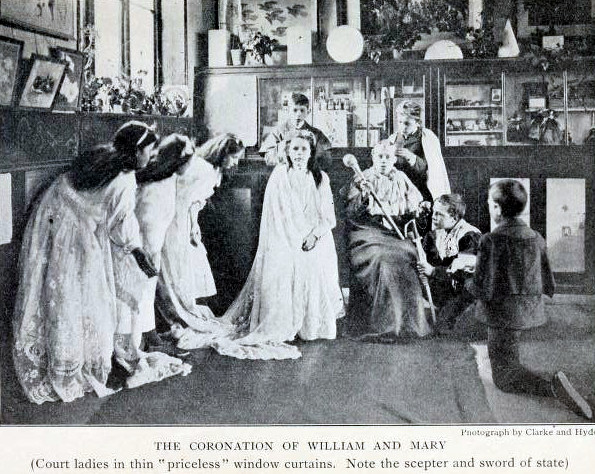 Harriet Finlay-Johnson or Harriet Johnson or Harriet Weller (12 March, 1871 – 1956) was a British educationalist and schoolteacher known for encouraging children to create dramas to improve their education. A sene from one of the dramas.